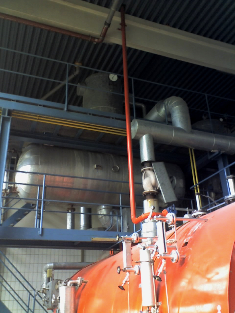 Deaerator of two fire-tube boilers